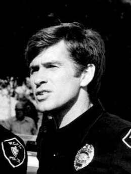 Photo of the cast of the short-lived television program Chopper One. From left: Dirk Benedict, Ted Hartley, Jim McMullan.